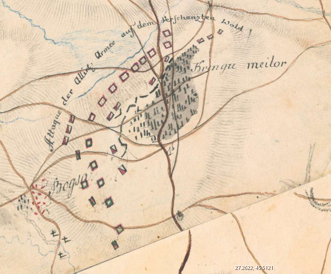 Crangul Mieilor 1789 Battle of Ramnic